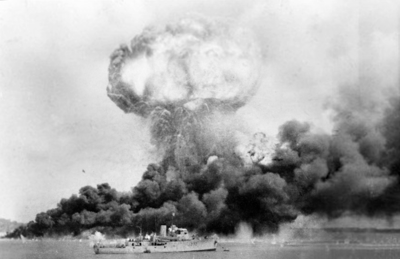 The explosion of the MV Neptuna and clouds of smoke from oil storage tanks, hit during the first Japanese air raid on Australia's mainland, at Darwin on February 19, 1942. In the foreground is HMAS Deloraine, which escaped damage.